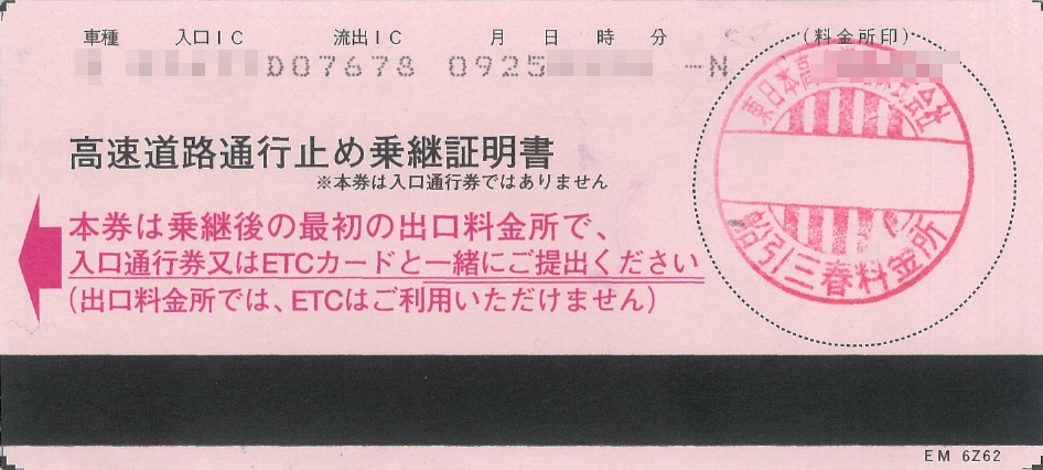 Certificate of expressway road closure. It is issued by East Nippon Expressway Company because of traffic accident.